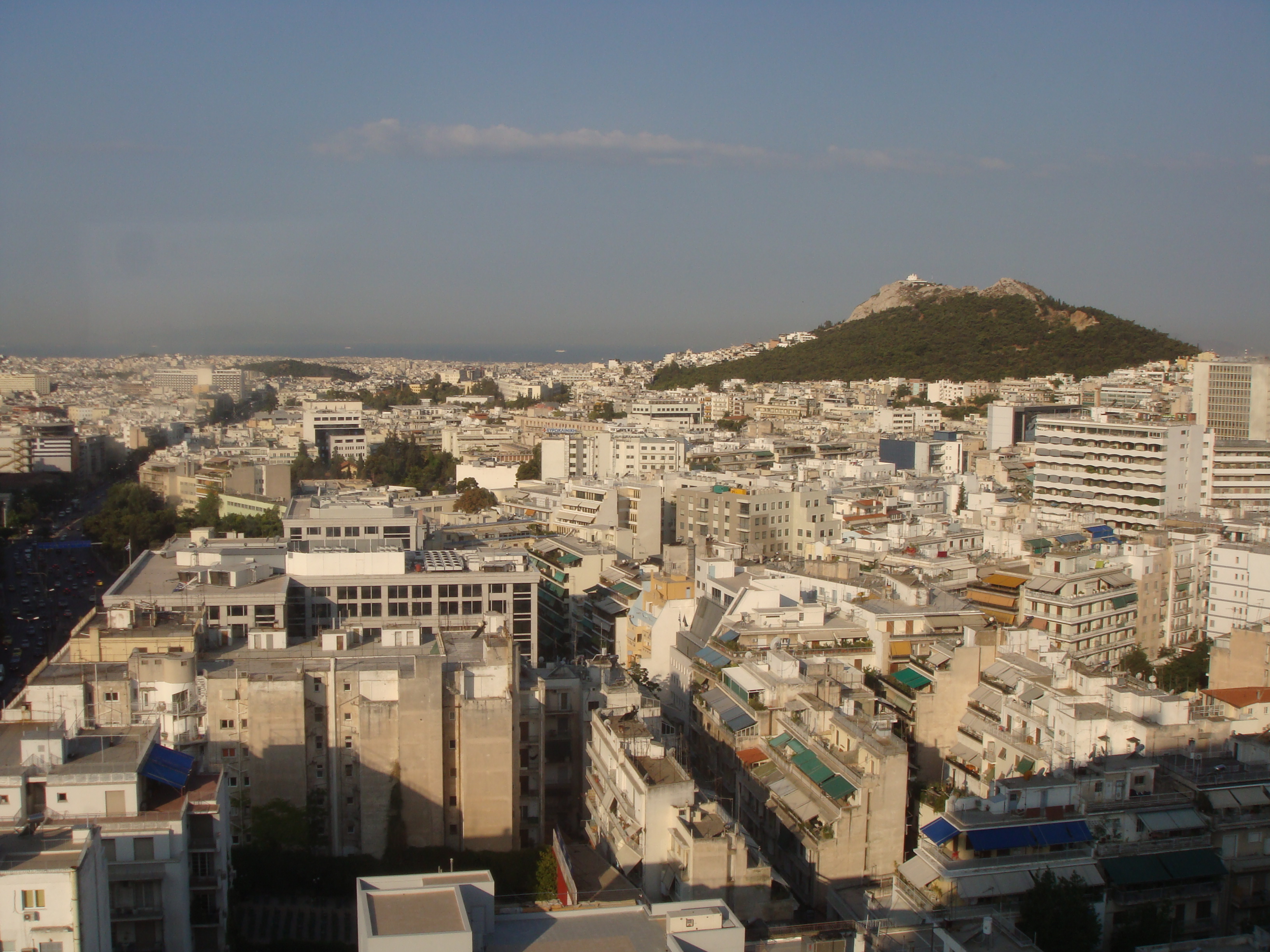 View of Likavitos, Athens.